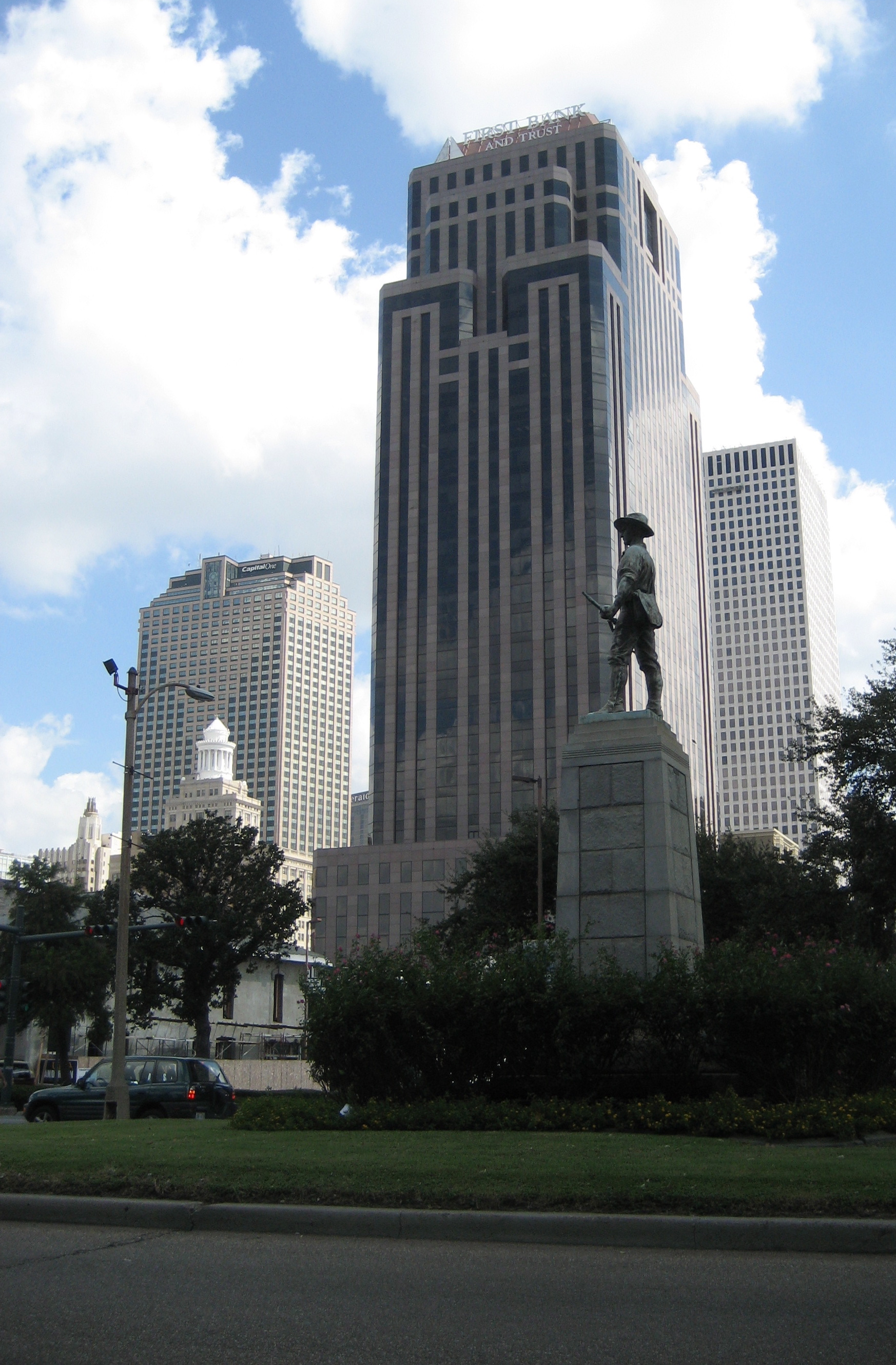 New Orleans Central Business District. Loyola Avenue just up from Poydras Street, looking riverward. Spanish American War soldier statue in foreground, behind it the First Bank and Trust Tower. To the right is the One Shell Square building partially obscured. To the left is Place St. Charles, and the shorter dome of the Hibernia Bank Building and the brass colored tower of the American Bank Building.